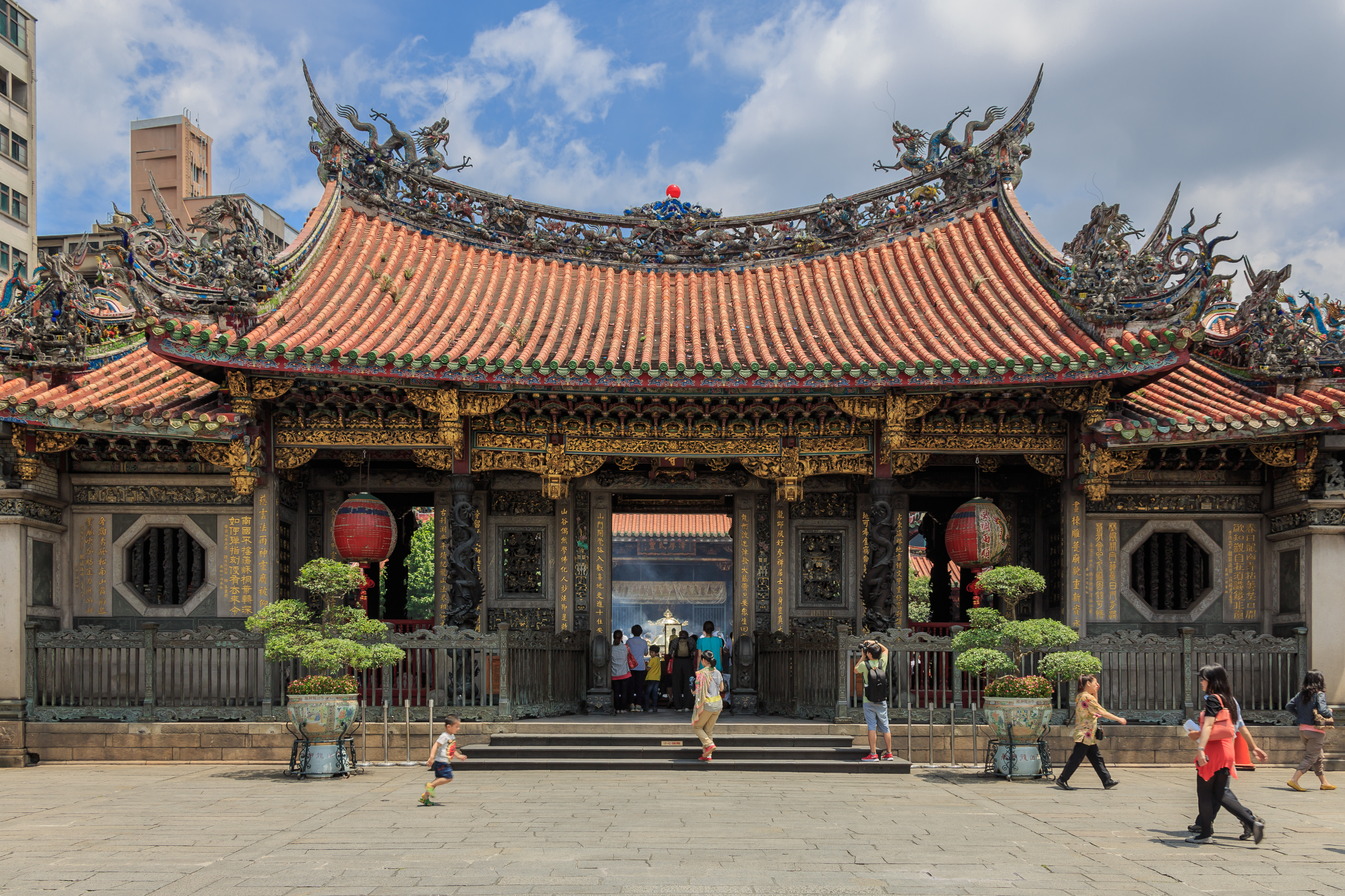 Taipei, Taiwan: Entrance gate to Mengjia Longshan Temple